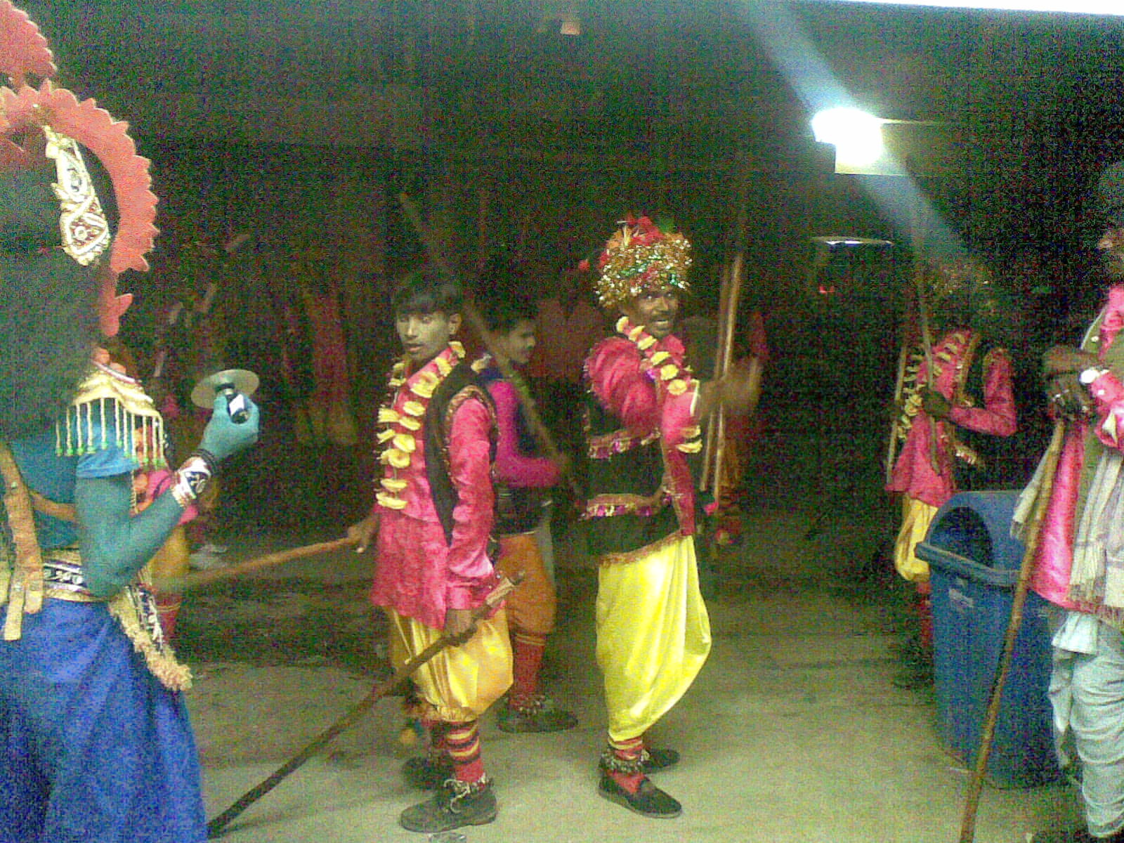 This is a glimpse of Raut dance at Bilaspur, group of people perform this dance.